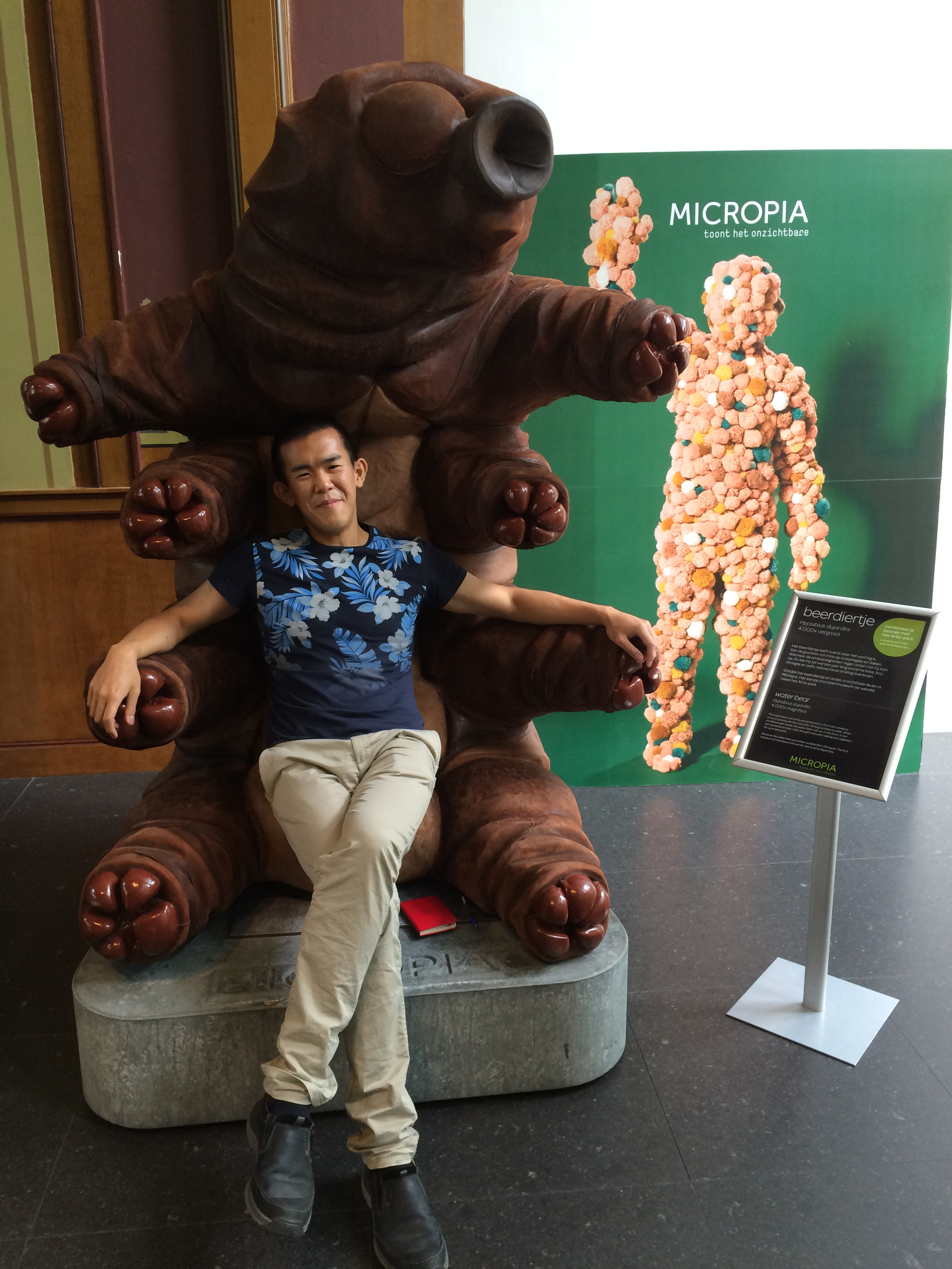 Ed Yong on a tardigrade in Micropia